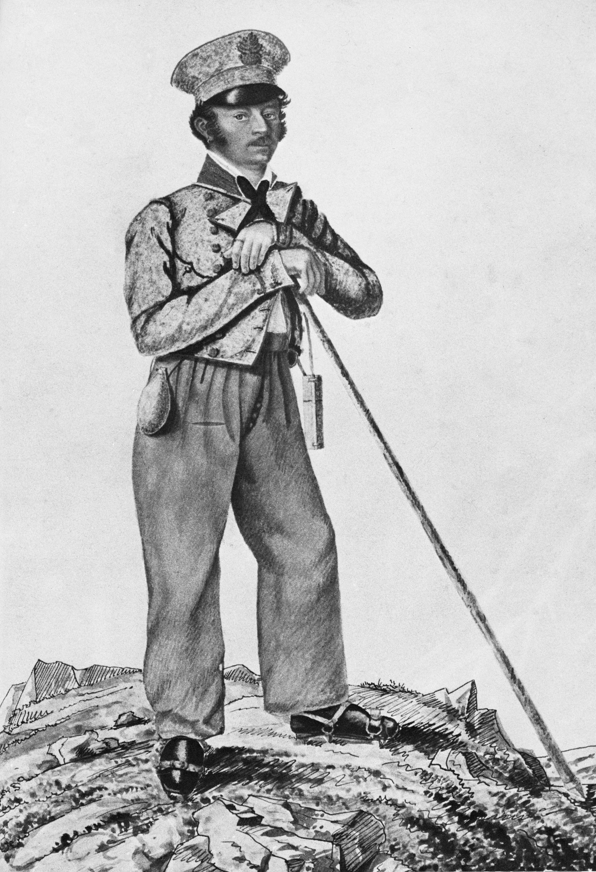 Joseph Naus leader of the first ascent of the Zugspitze. Drawing by H. v. Aggenstein in the year of 1824.